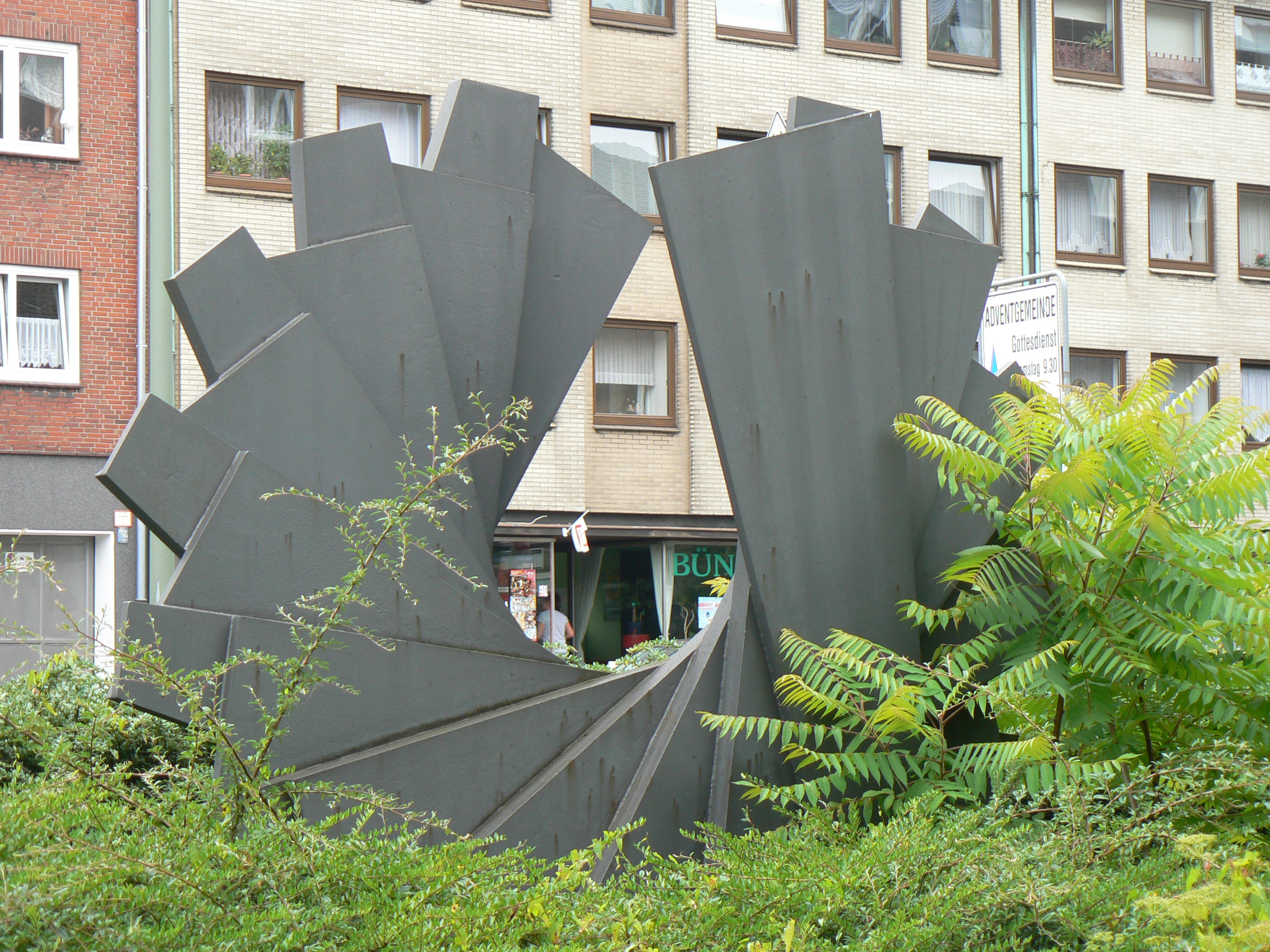 sculpture Untitled 1988 by Eberhard Fiebig in Gelsenkirchen/Germany